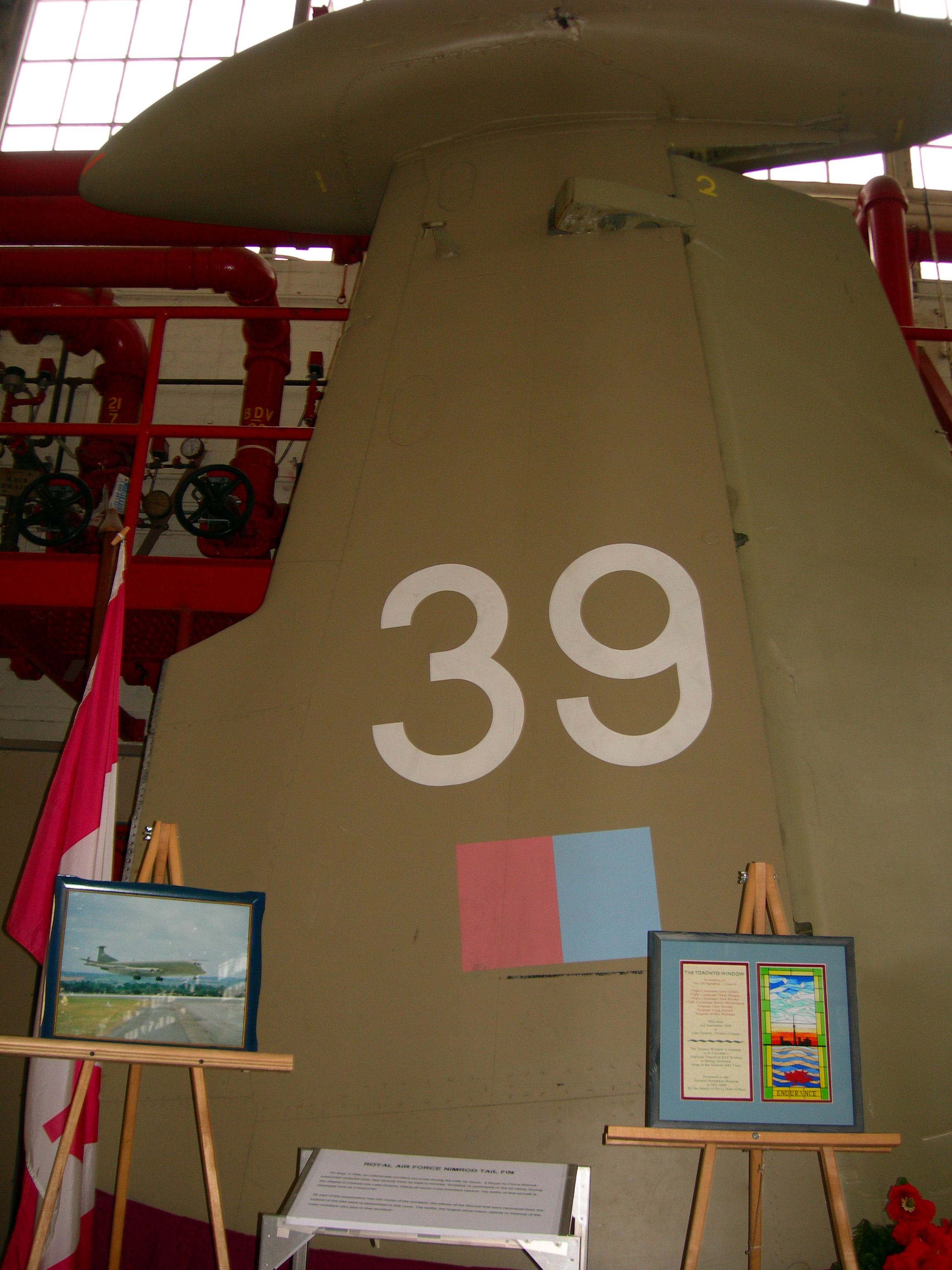 The tail from a Nimrod that crashed into Lake Ontario on 02 September 1995 during the CNE (Canadian National Exhibition). All 7 crew members died when the airplane while executing a wingover with a steep bank angle. The tail is part of a memorial at the Toronto Aerospace Museum.